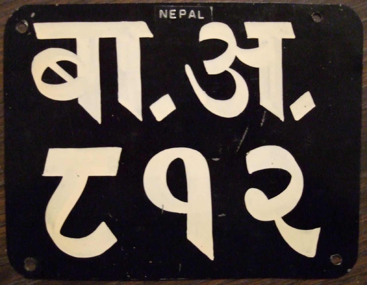 Nepal plate from the town of Bagmati Anchal and is issued to a taxi. Nepalese taxi plates are white on black, passengers are white on red. The plate reads BA A at the top with a serial number of "812" Mt Everest the world's tallest mountain and the world's "third pole" is in Nepal.